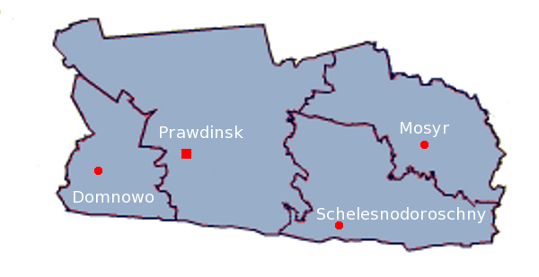 The administrational division of the Pravdinsky District in German transcription